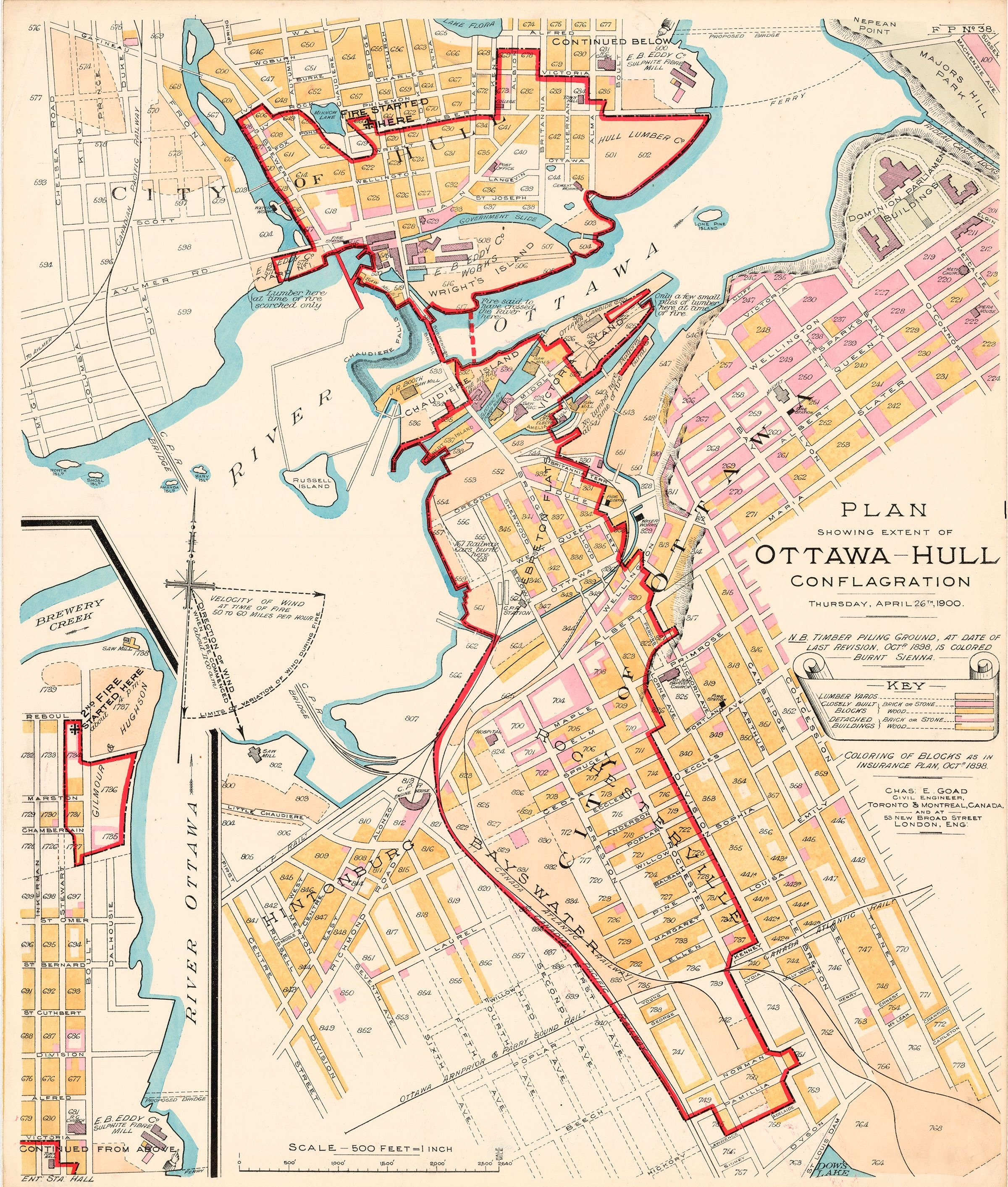 Plan showing the extent of the Hull-Ottawa fire. Ottawa Fire Insurance Plan (FP # 38), Ontario and Hull (Gatineau), Quebec, indicating the boundaries of the fire of April 26, 1900. It also includes information on the location of the fire throughout the day, and the direction and speed of the wind.